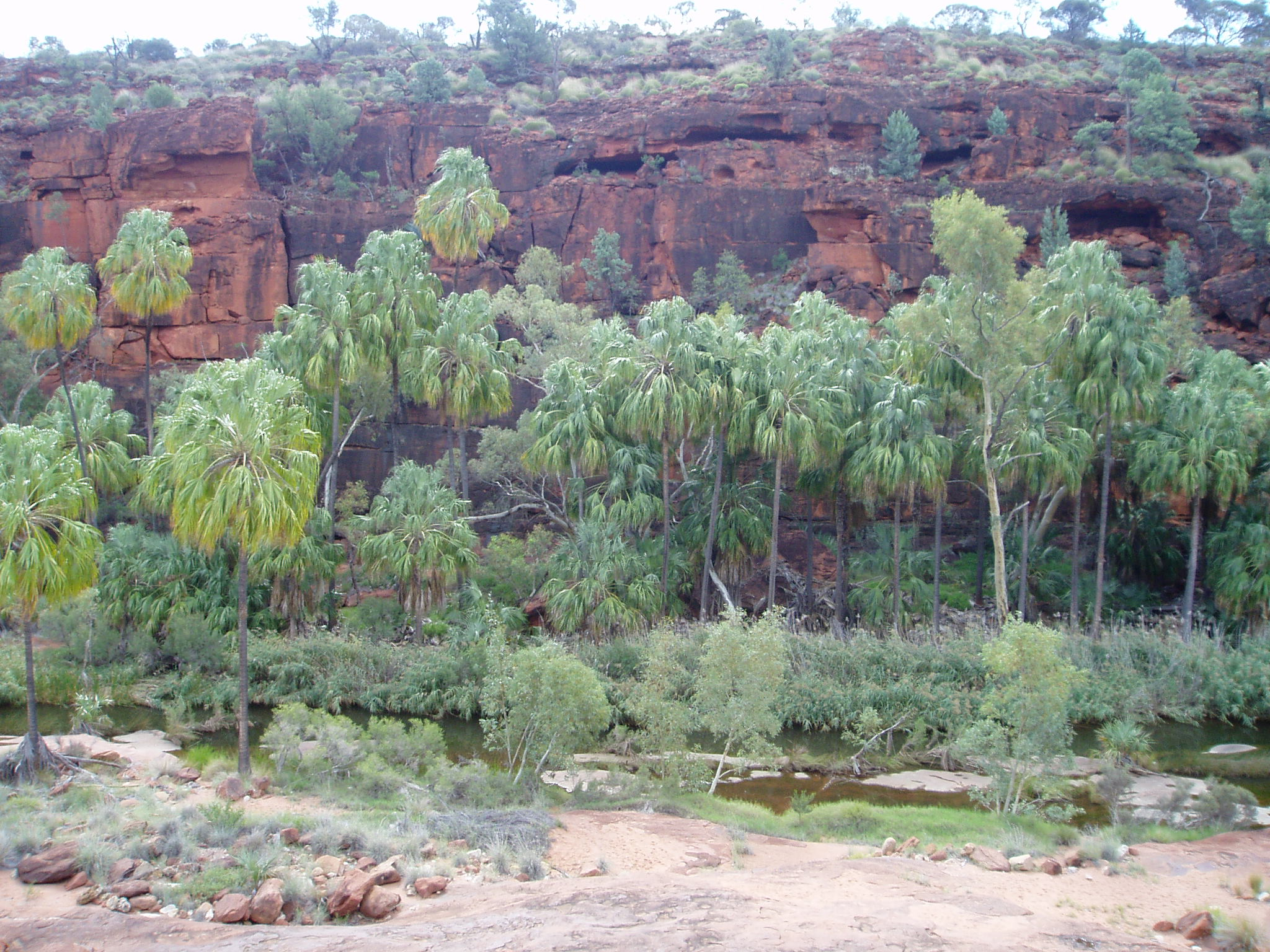 Livistona mariae palms (also known as Red Cabbage Palms), Palm Valley, NT